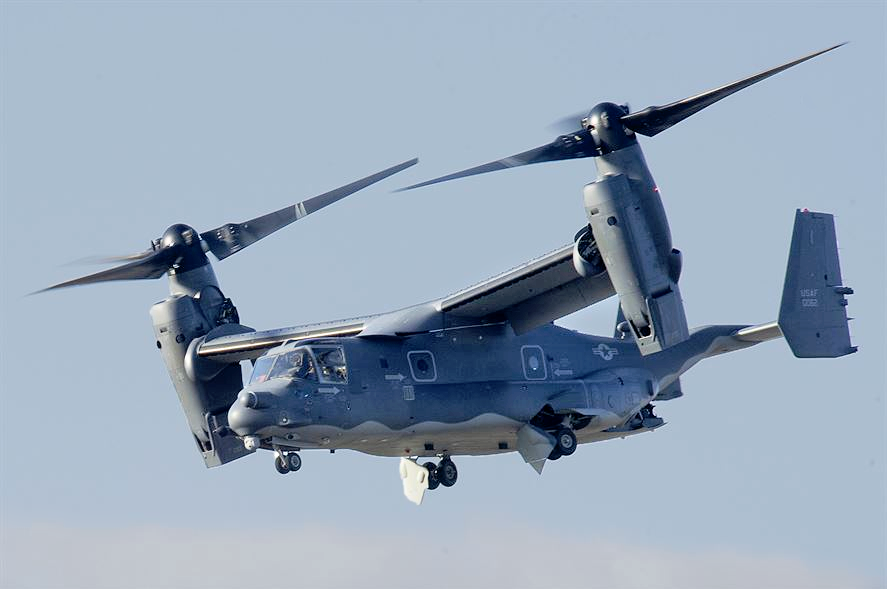 CV-22 of the 7th Special Operations Squadron at RAF LakenheathM